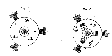 Technical drawings of a chuck for a lathe, for an article by John Isaac Hawkins in The Repertory of Arts and Manufactures.[1]